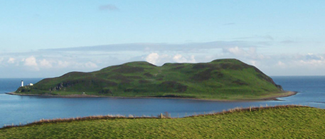 Davaar Island at the mouth of Campbeltown Loch.